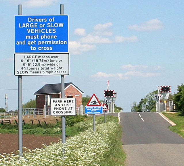 Signs at the level crossing near Stowgate, Lincolnshire, England.